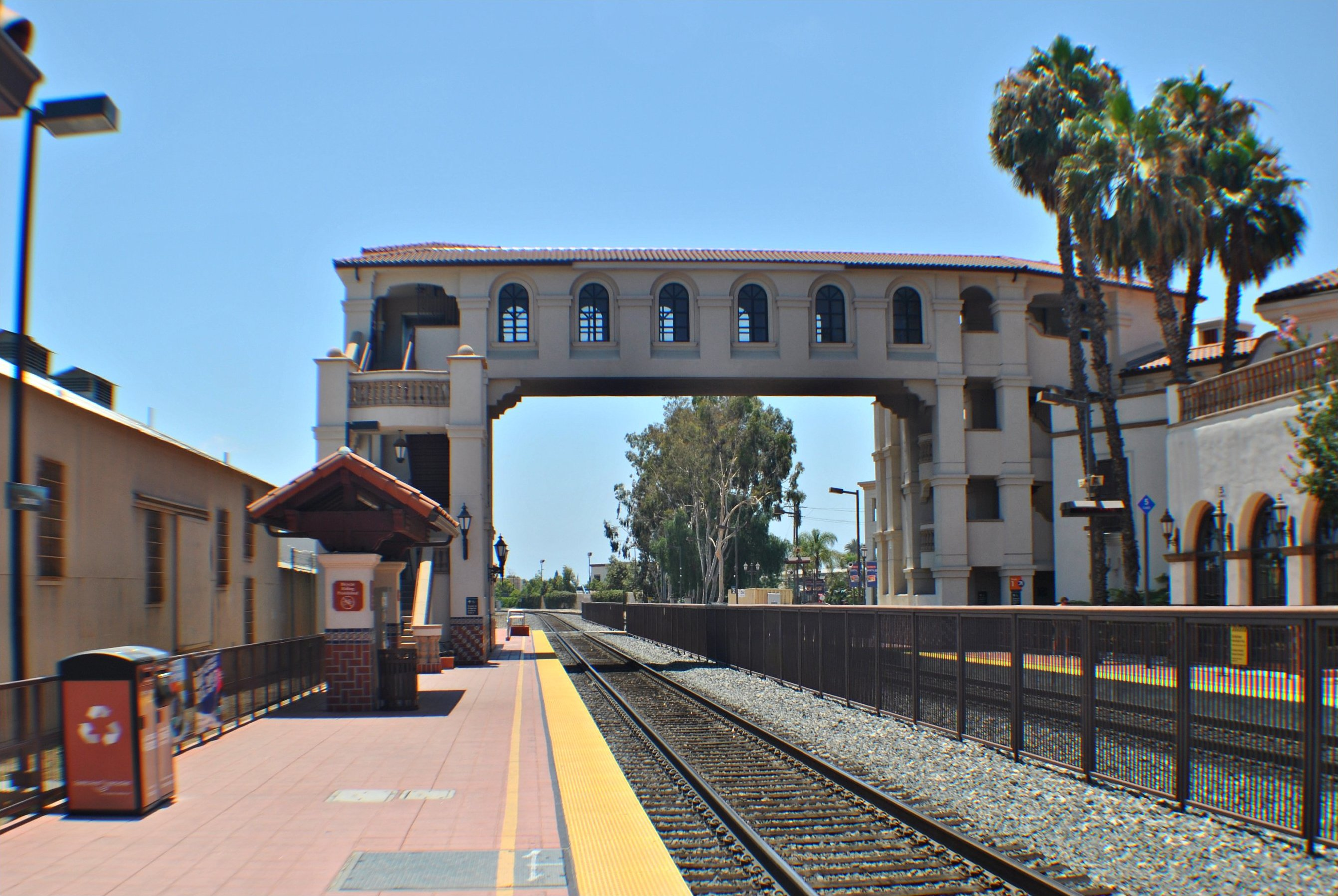 Santa Ana Amtrak Station California